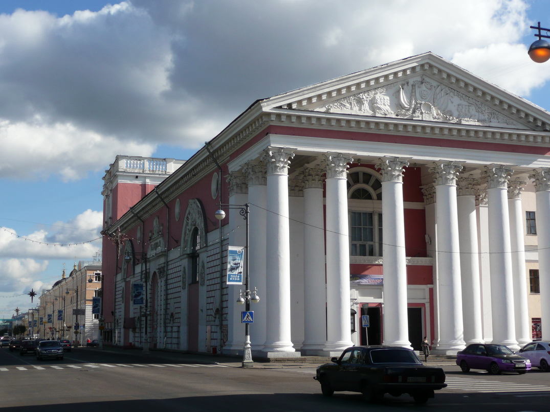 Tver Drama Theatre